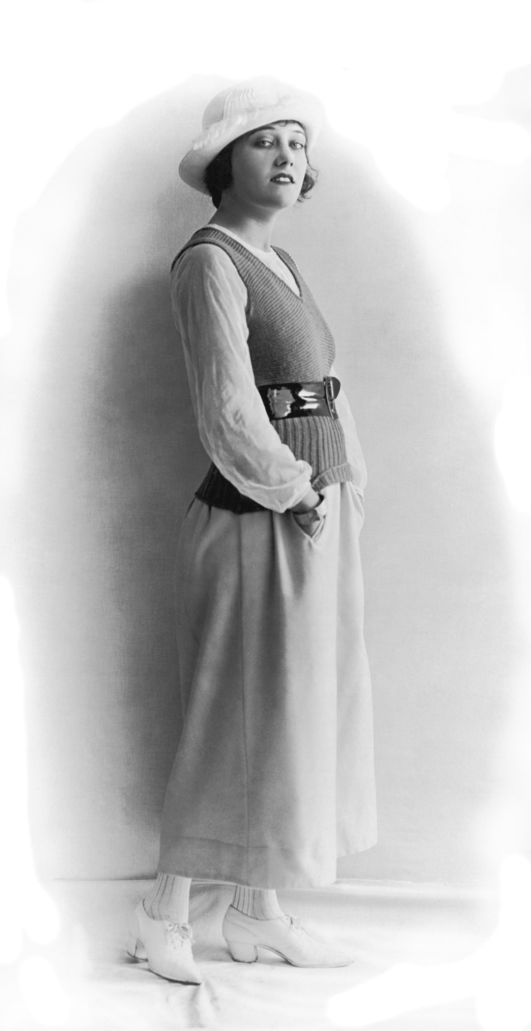 Full-length portrait of American actor Gloria Swanson (1899 - 1983) standing with her hands in her skirt pockets.